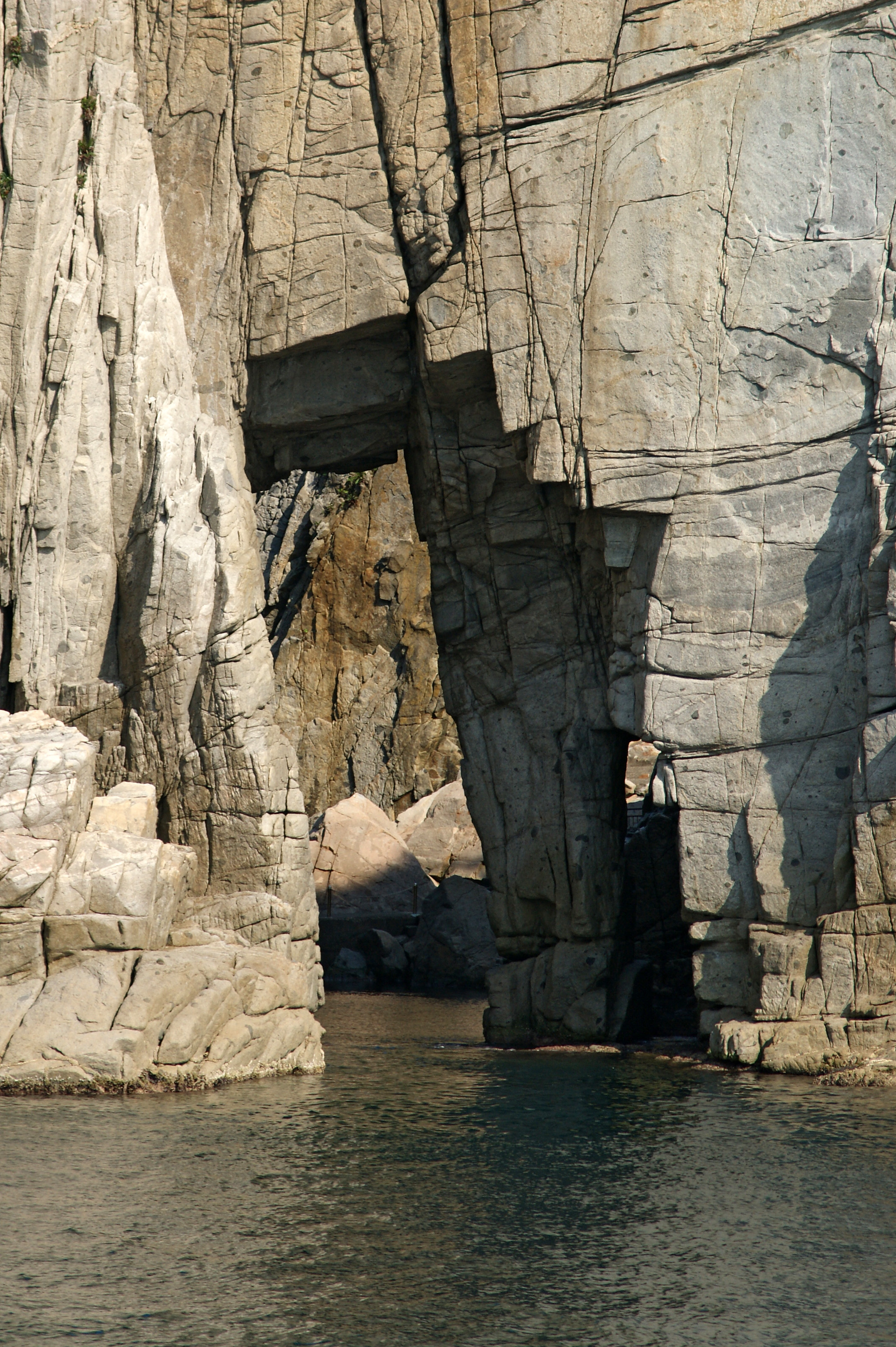 Sotomo, Obama, Fukui prefecture, Japan